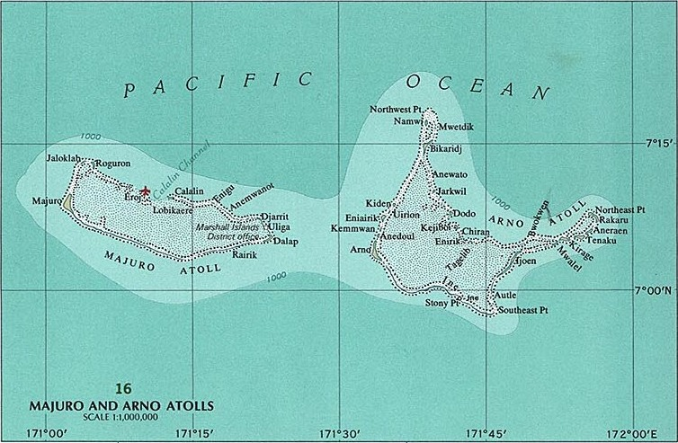 National Atlas of the United States, page "Pacific Outlying Areas", with map insets: Majuro and Arno Atolls